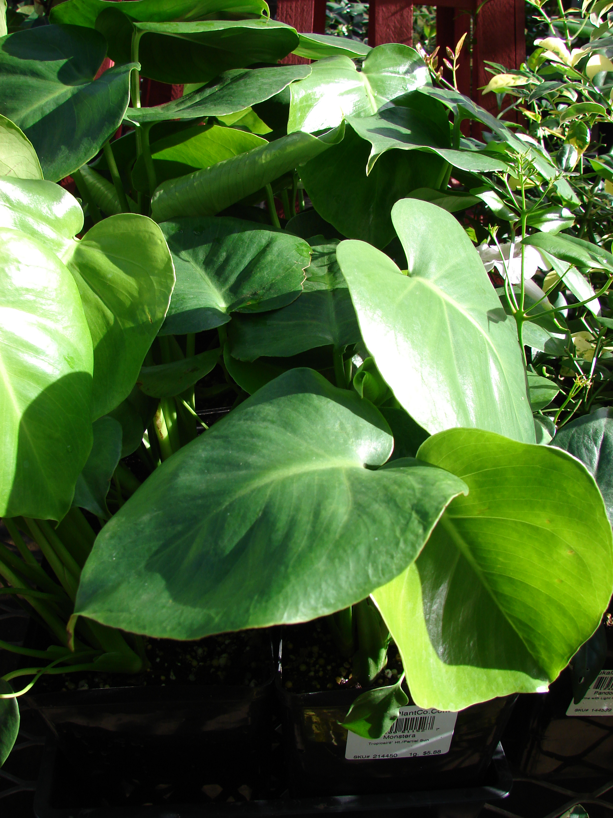 Monstera deliciosa (leaves). Location: Maui, Lowes Garden Center Kahului